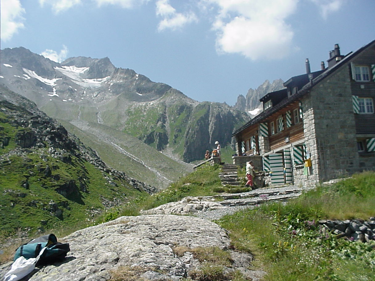 Etzlihütte, Switzerland. Piz Giuv or Schattig Wichel (3096 m) to the left, Sunnig Wichel (2911 m) to the right